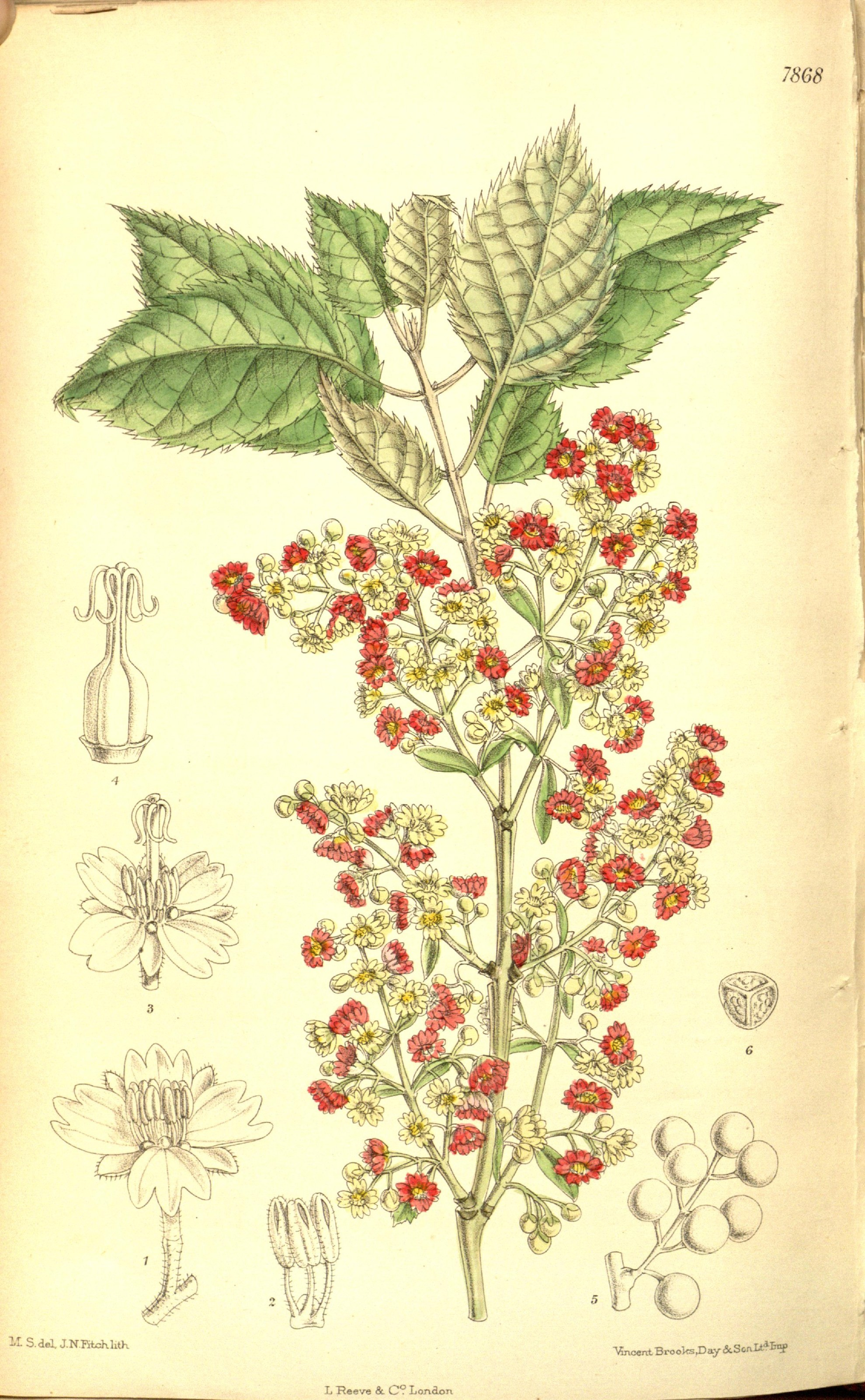 Listed as Aristotelia racemosa now known as A. serrata